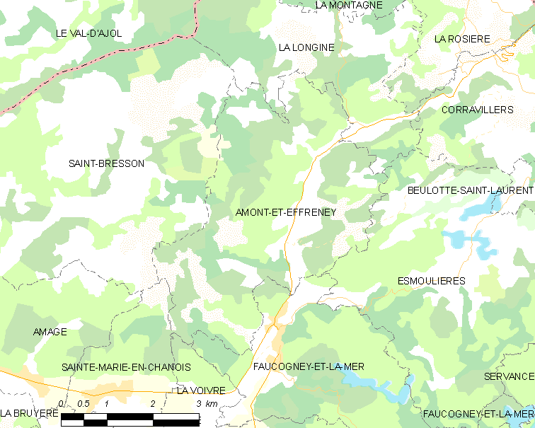 Map of French municipality